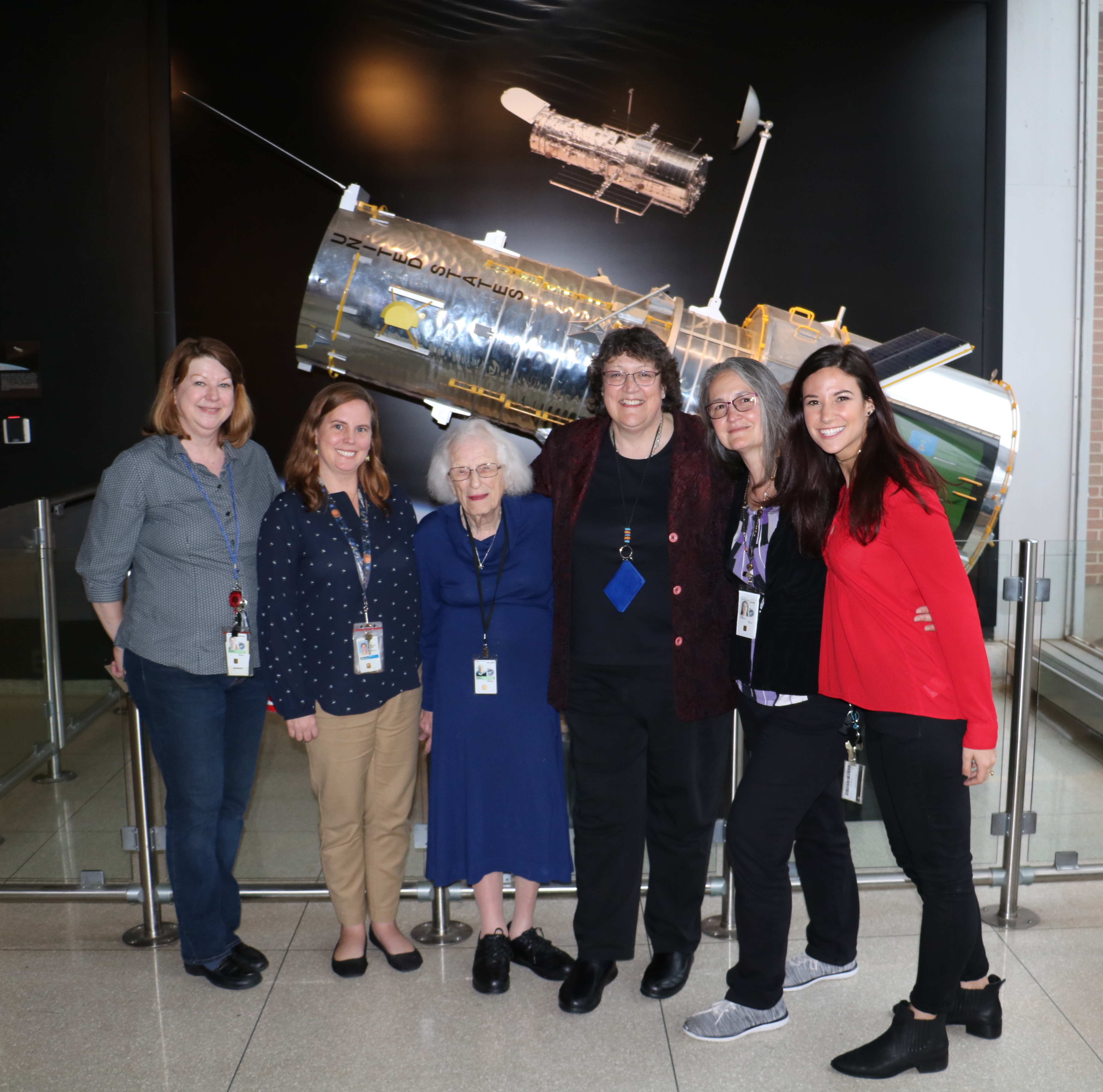 Dr. Nancy Grace Roman, NASA's first Chief of Astronomy and "the Mother of Hubble," visits the Space Telescope Operations Control Center at NASA's Goddard Space Flight Center on March 31, 2017, and meets with some women from the Hubble Space Telescope project. Left to right: Beverly Serrano, Morgan Van Arsdall, Nancy Grace Roman, Olivia Lupie, Padi Boyd, and Erin Kisliuk. Credit: NASA/GSFC/Jim Jeletic